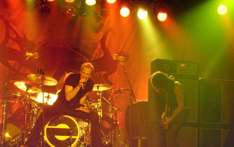 Extreme - Live in Birmingham 2008